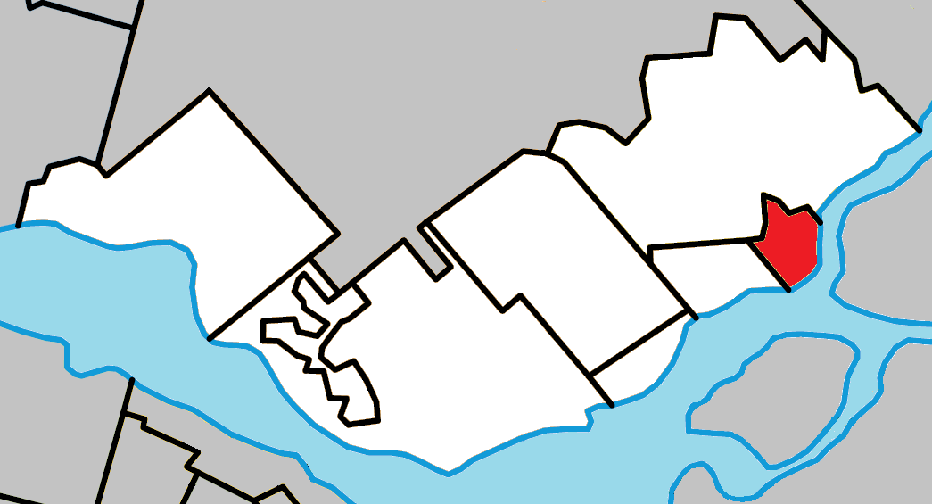 Location of Deux-Montagnes, Quebec within Deux-Montagnes Regional County Municipality.